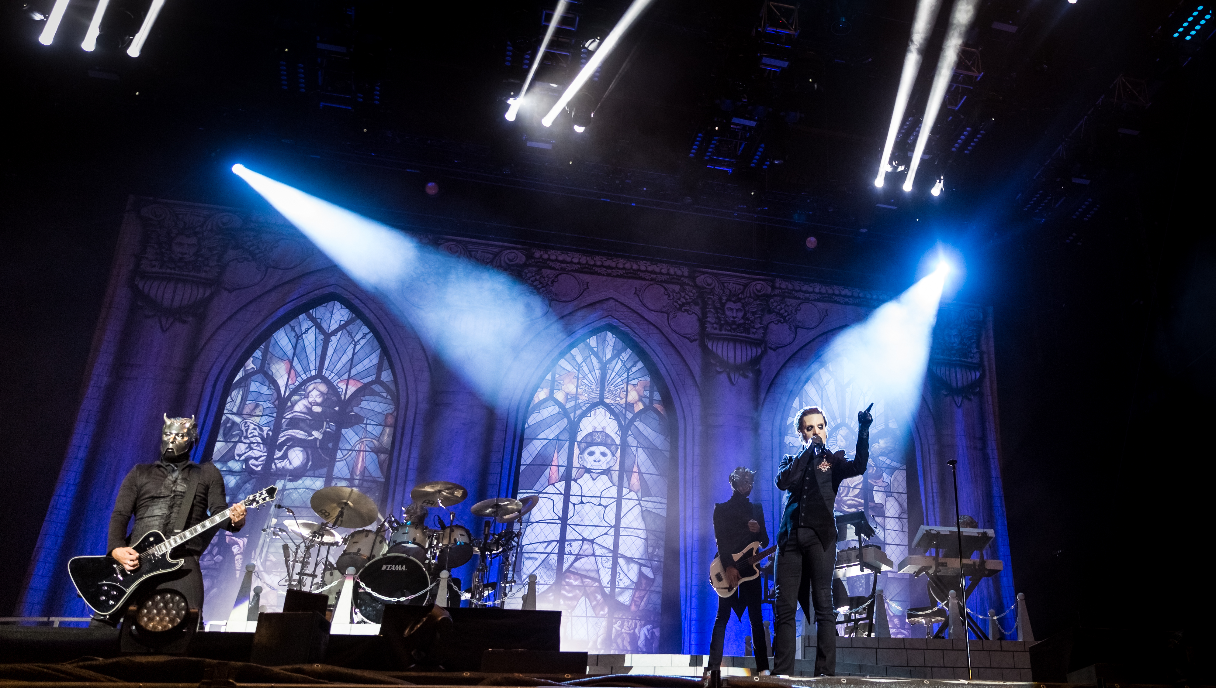 Ghost - Wacken Open Air 2018